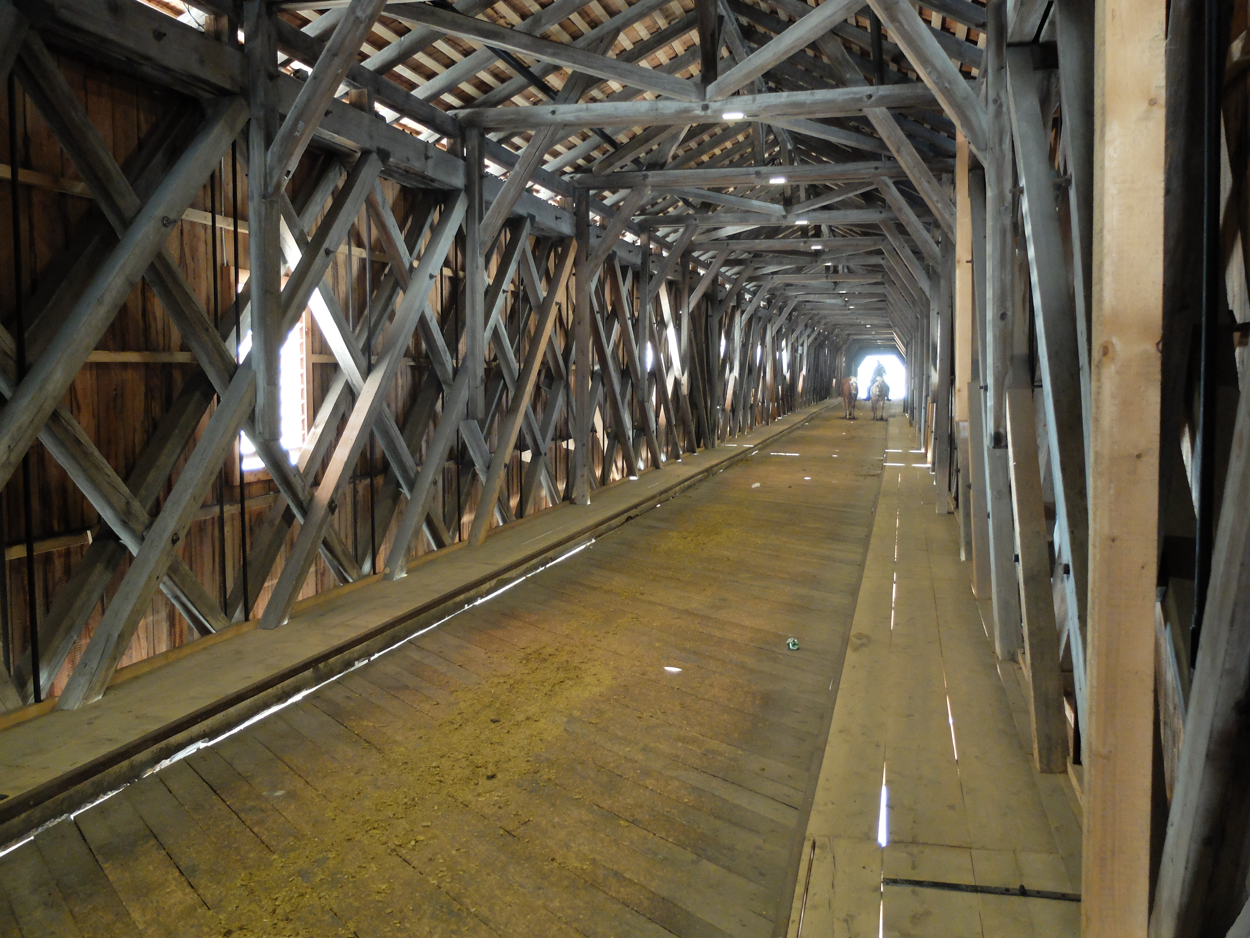 Old bridge over the Rhine in Vaduz, Liechtenstein/Switzerland. (inside).